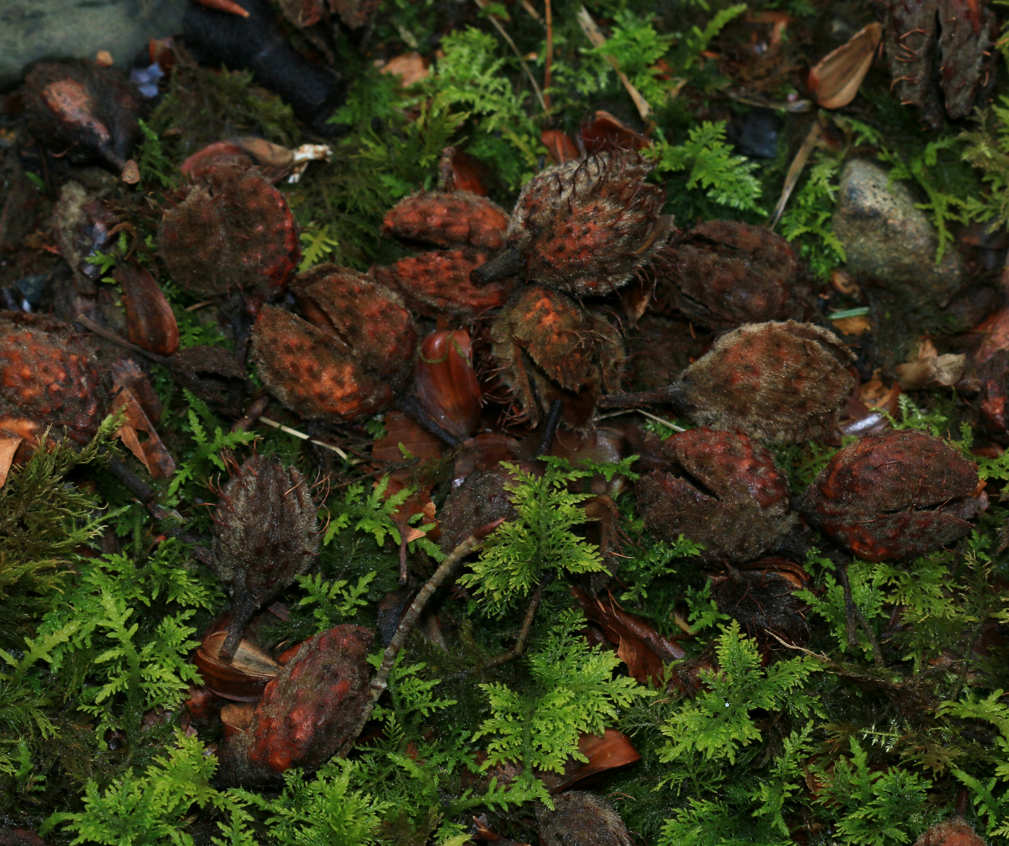 Changue forest, Carrick, Scotland